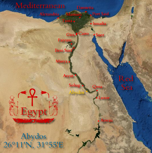 Location of Abydos on the map of Egypt.